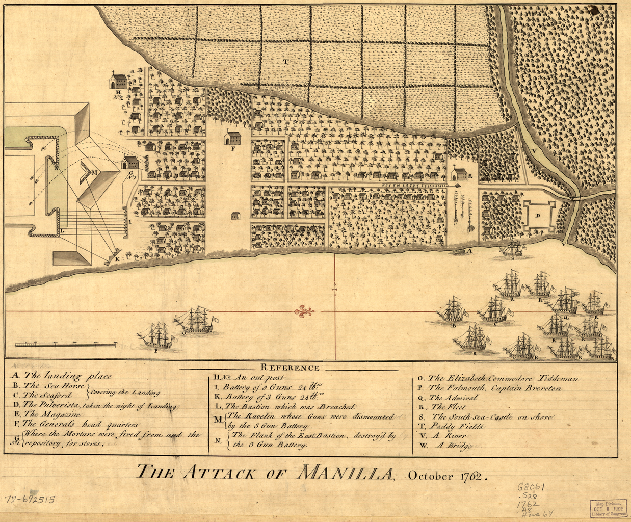 The Seven Years' War (1756-63) was a world-wide conflict between Britain and France that also involved Spain as an ally of France. In 1762, the British sent Admiral William Draper, with an expeditionary force of some 2,000 European and Indian (Sepoy) soldiers, to attack Manila in the Spanish colony of the Philippines. The Spanish offered little opposition, and on October 2, 1762, the acting governor-general, Archbishop Manuel Antonio Rojo, surrendered the city. The British occupation lasted until 1764, when the Philippines reverted to Spanish control as part of the peace settlement. This map depicts where the British landed and the assault from the south. It shows the British warships (some of which are individually identified) and many other features, including roads, houses, churches, vegetation, and cultivated fields. Tagalog: Ang Digmaan ng Pitong Taon (1756-63) ay isang pandaigdigang hidwaan sa pagitan ng Britanya at Pransya kasama na rin ang Espanya bilang kaanib ng Pransya. Noong 1762, pinadala ng mga Briton si Almirante William Draper na may puwersang ekspedisyonarya ng ilang 2,000 Europeo at Indianong (Sepoy) kawal para lusubin ang Maynila sa kolonya ng Espanya sa Pilipinas. Naging mahina ang pagpalag ng mga Kastila, at noong Oktubre 2, 1762, ang tumatayong gobernador-heneral, si Arsobispo Manuel Antonio Rojo, ay isinuko na ang lungsod. Ang pananakop ng mga Briton ay tumagal hanggang 1764, nang isauli sa kontrol ng mga Kastila ang Pilipinas bilang bahagi ng isang kasunduang pangkapayapaan. Ipinapakita ng mapang ito ang pagdaong ng mga Briton at pagsugod mula sa timog. ipinapakita rin nito ang mga barkong pandigma ng mga Briton (ang ilan ay tukoy pa ang pagkakakilanlan) at iba pang mga katangian ng lugar gaya ng mga kalsada, bahay, simbahan, halamanan, at lupang sakahan.